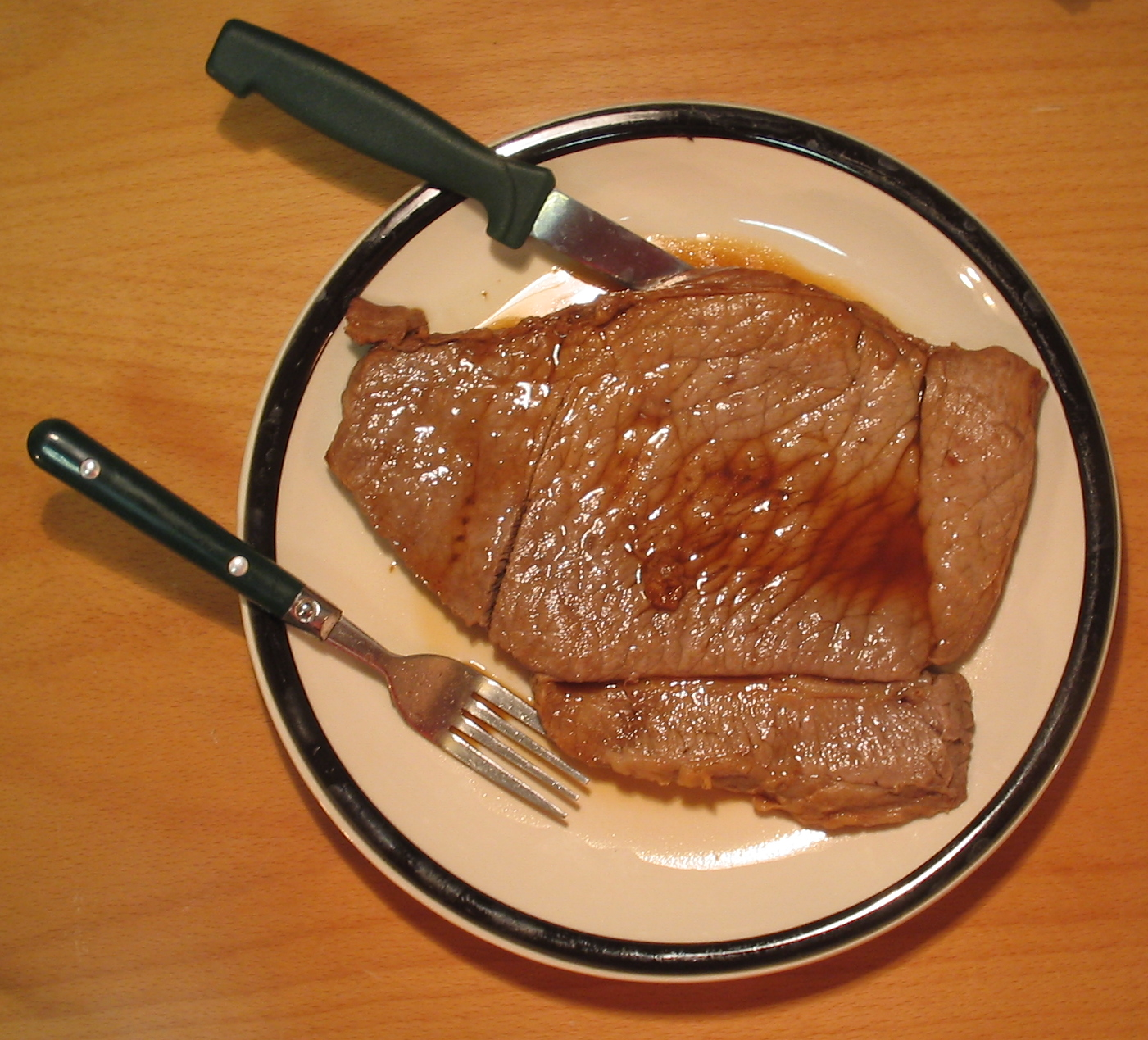 The same steak in its packaging. A cooked round steak in a pan. David Benbennick took this photo on August 6, 2005 at 6:54 PM (August 7 00:54 UTC).